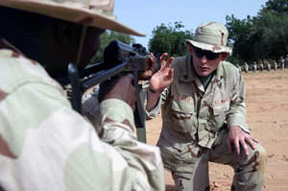 Sgt. Chris Singley, instructor/trainer, Trans-Sahel Counter Terrorist Initiative Mobile Training Team, monitors firing positions of Nigerian soldiers during training at Nigerian Army Camp Tondibiah.